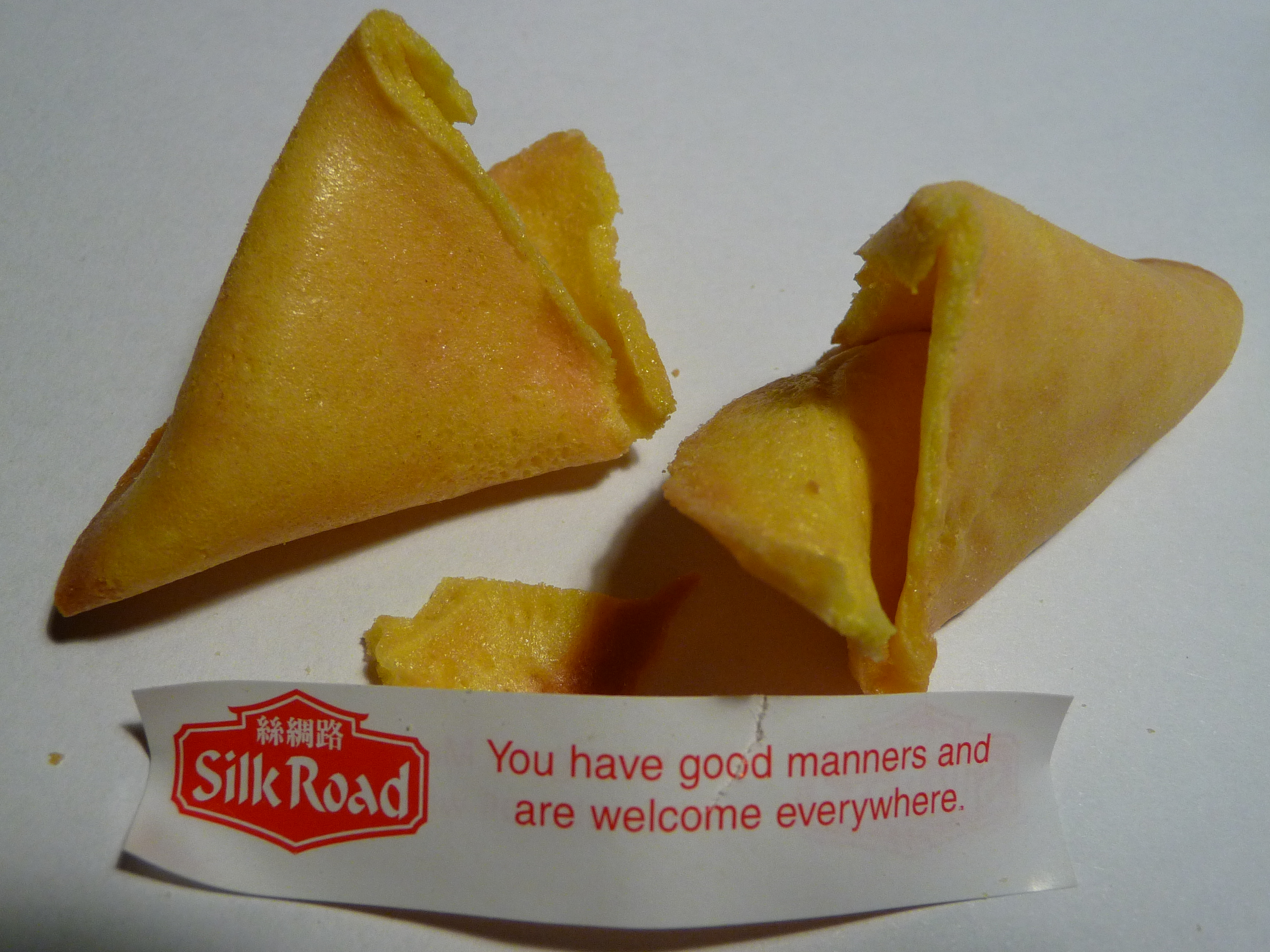 broken fortune cookie